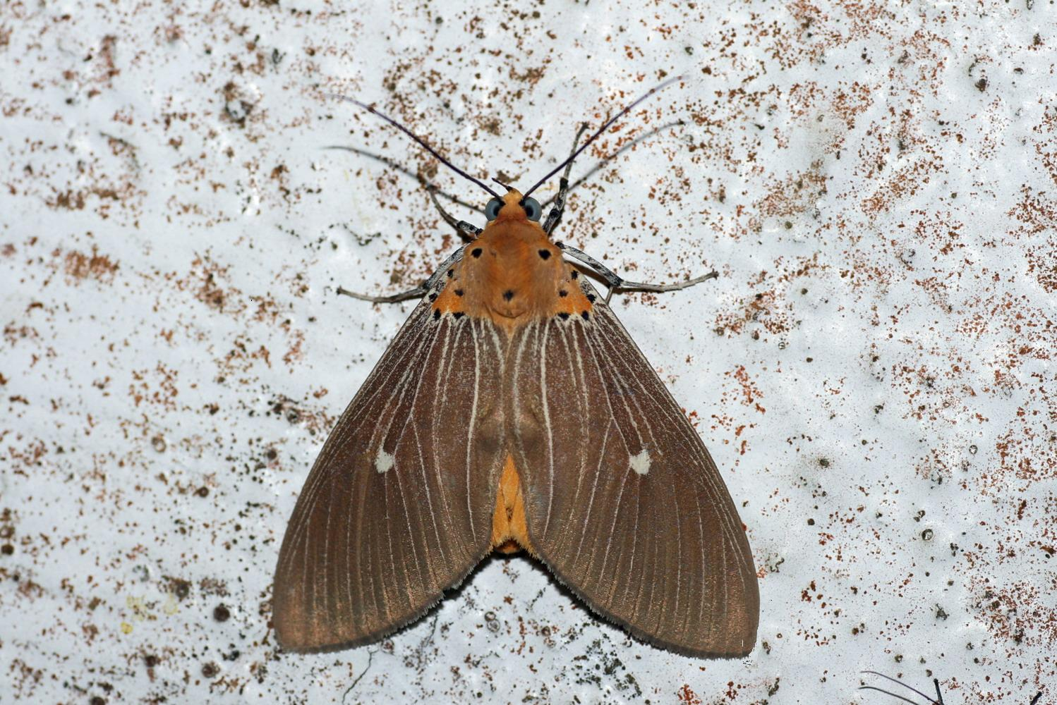 Malaysia, Fraser Hill, March 2009